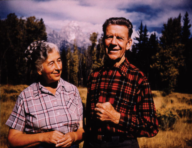 Mardy Murie (left) and Olaus Murie (right) by their home in front of Grand Tetons, 1953.